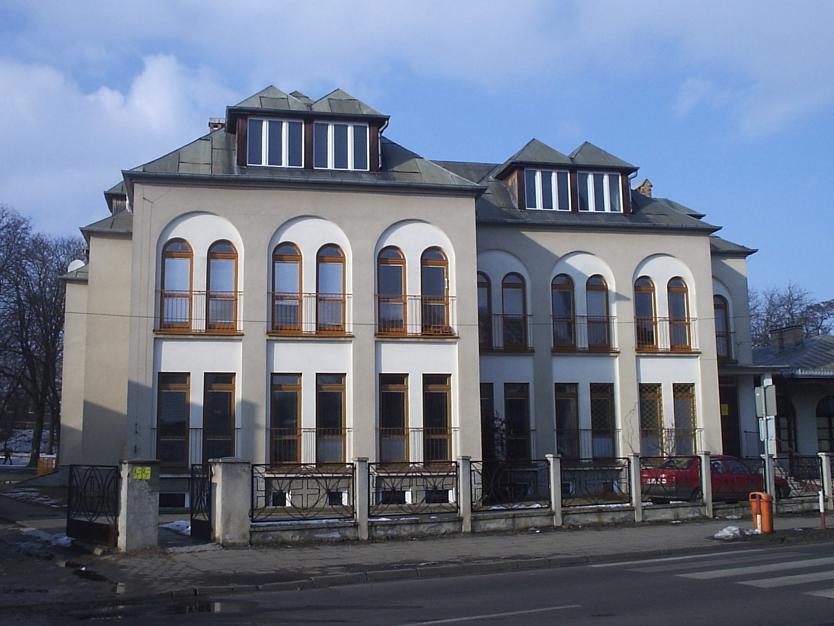 Music School in Gostyń, Poland